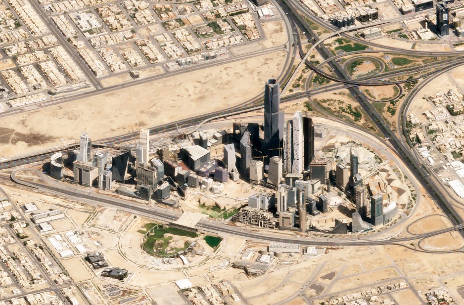 SkySat satellite image of Riyadh, Saudi Arabia